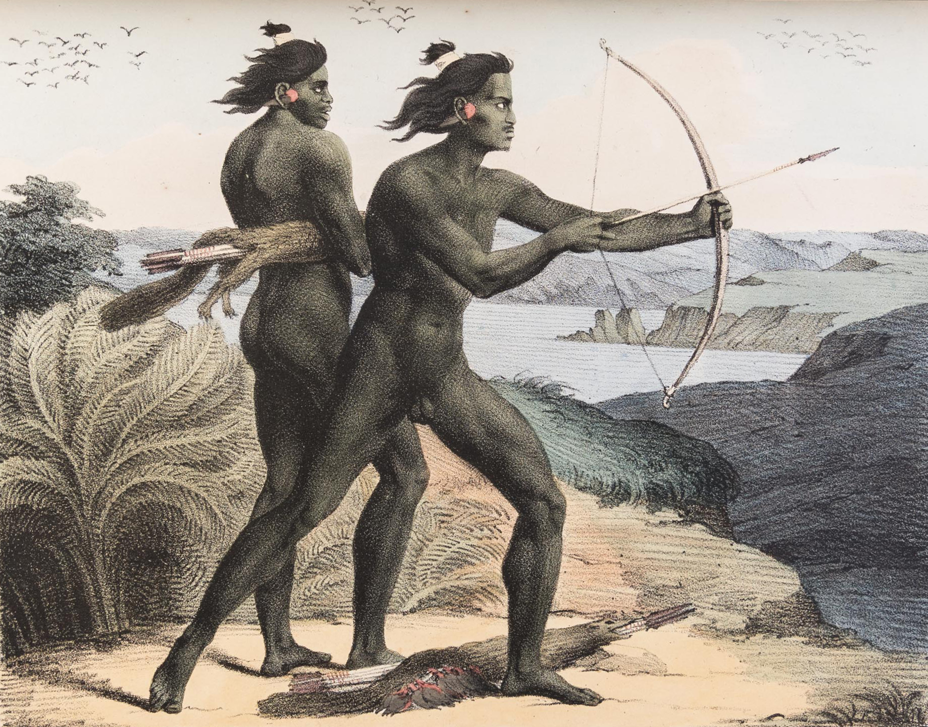 Two Ohlone men hunting. Painted by Louis Choris.